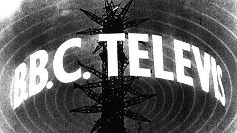 BBC Television Newsreel opening titles